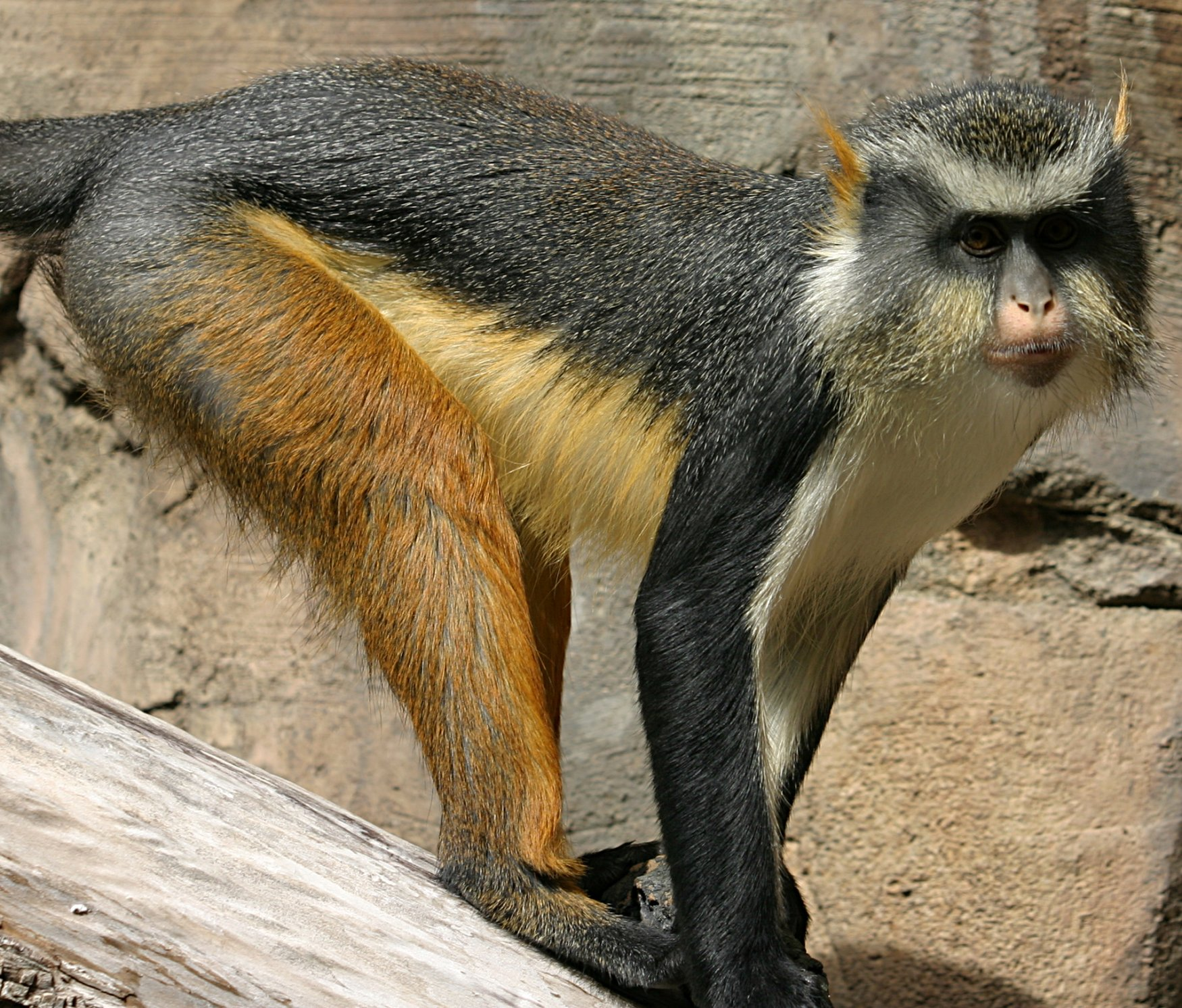 Wolf's Mona Monkey at the Henry Doorly Zoo in Omaha, Nebraska